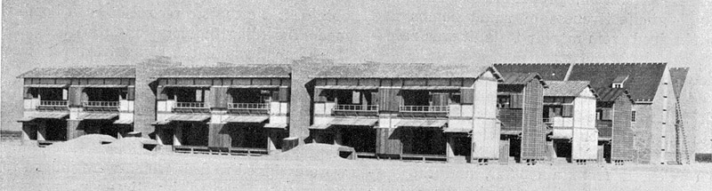 View of the German and Japanese Village at Dugway prooving grounds, Utah, 1943